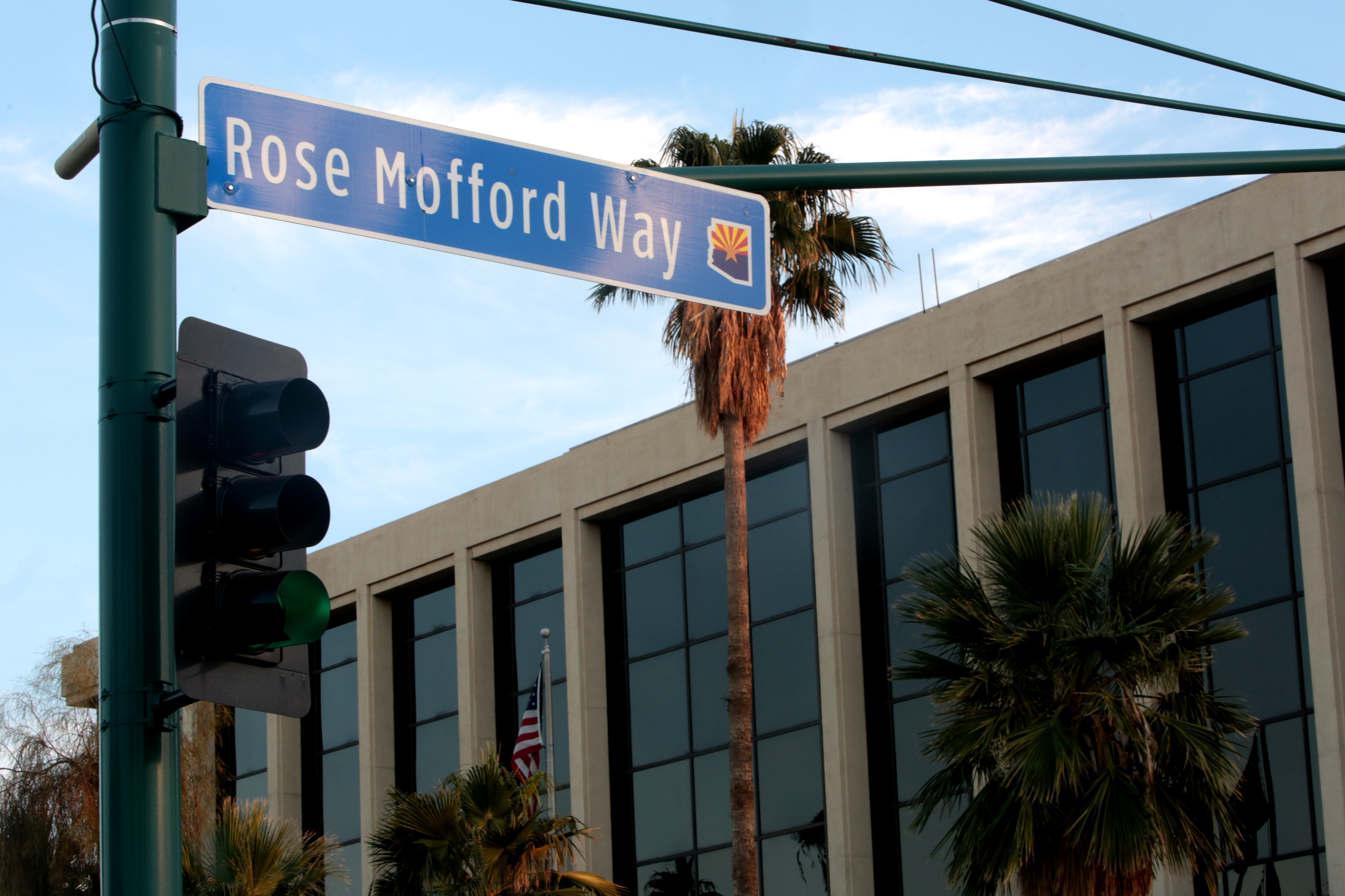 Rose Mofford Way sign outside the Arizona Capitol complex in Phoenix, Arizona.